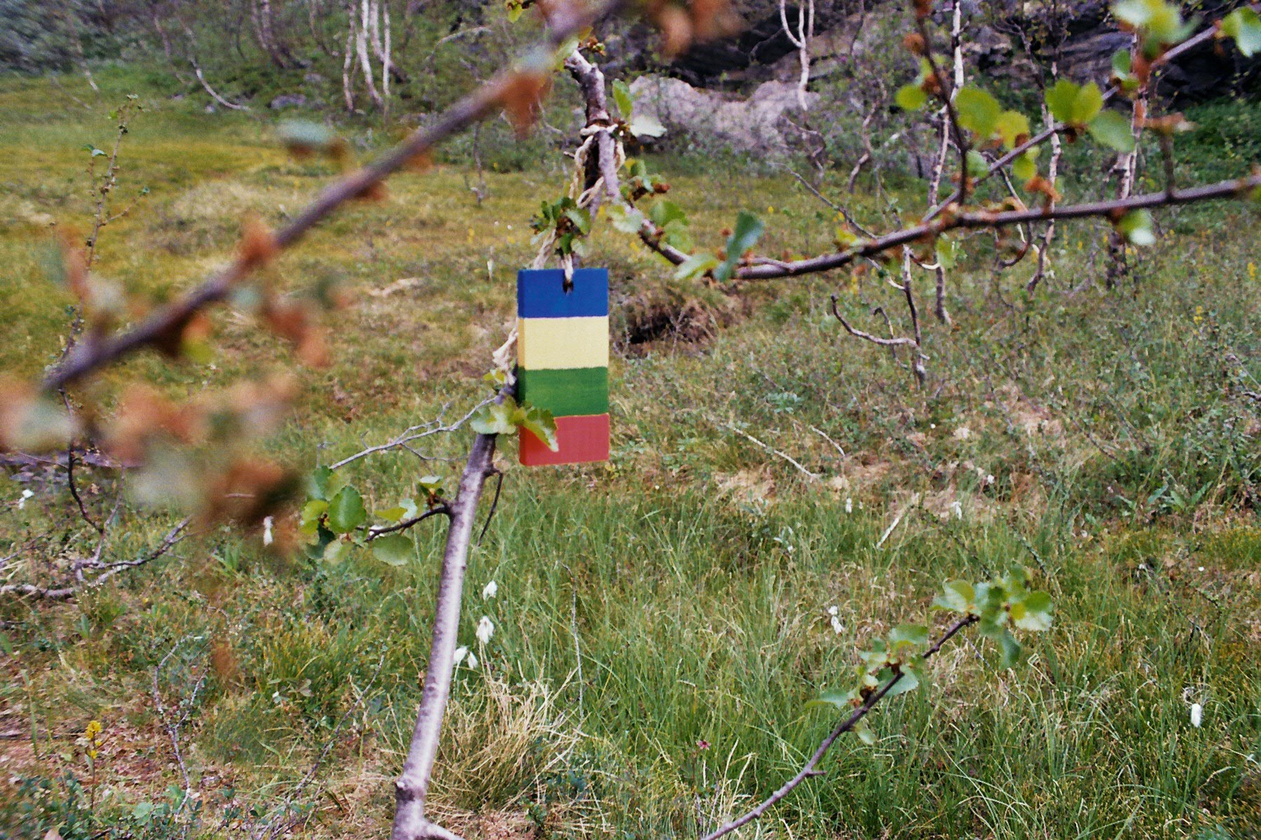 Marking of the trail by 4-colored wood blocks hanging on trees.